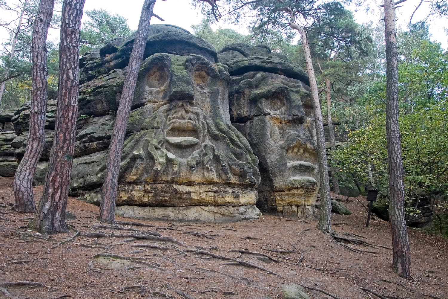 Devils's Heads - sandstone reliefs near village of Želízy, Mělník District, Czech Republic